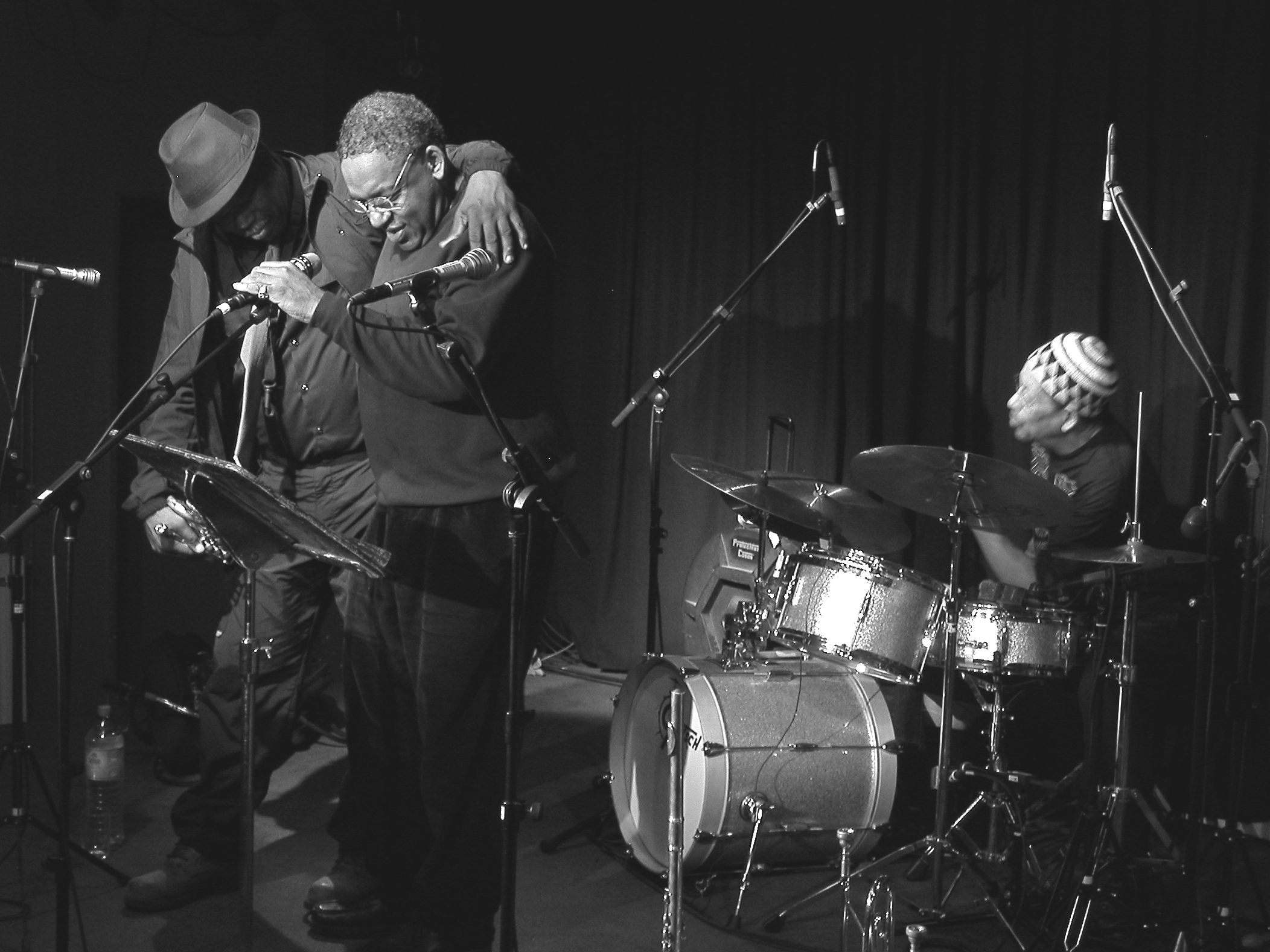 Roy Campbell jr. with "A Tribute to Albert Ayler" (Joe McPhee, Roy Campbell jr., William Parker & Warren Smith) one day after the election of Barack Obama for President of the US in Club W71, Weikersheim. He is reading the poem "Music is the healing power of the Universe" by Albert Ayler.